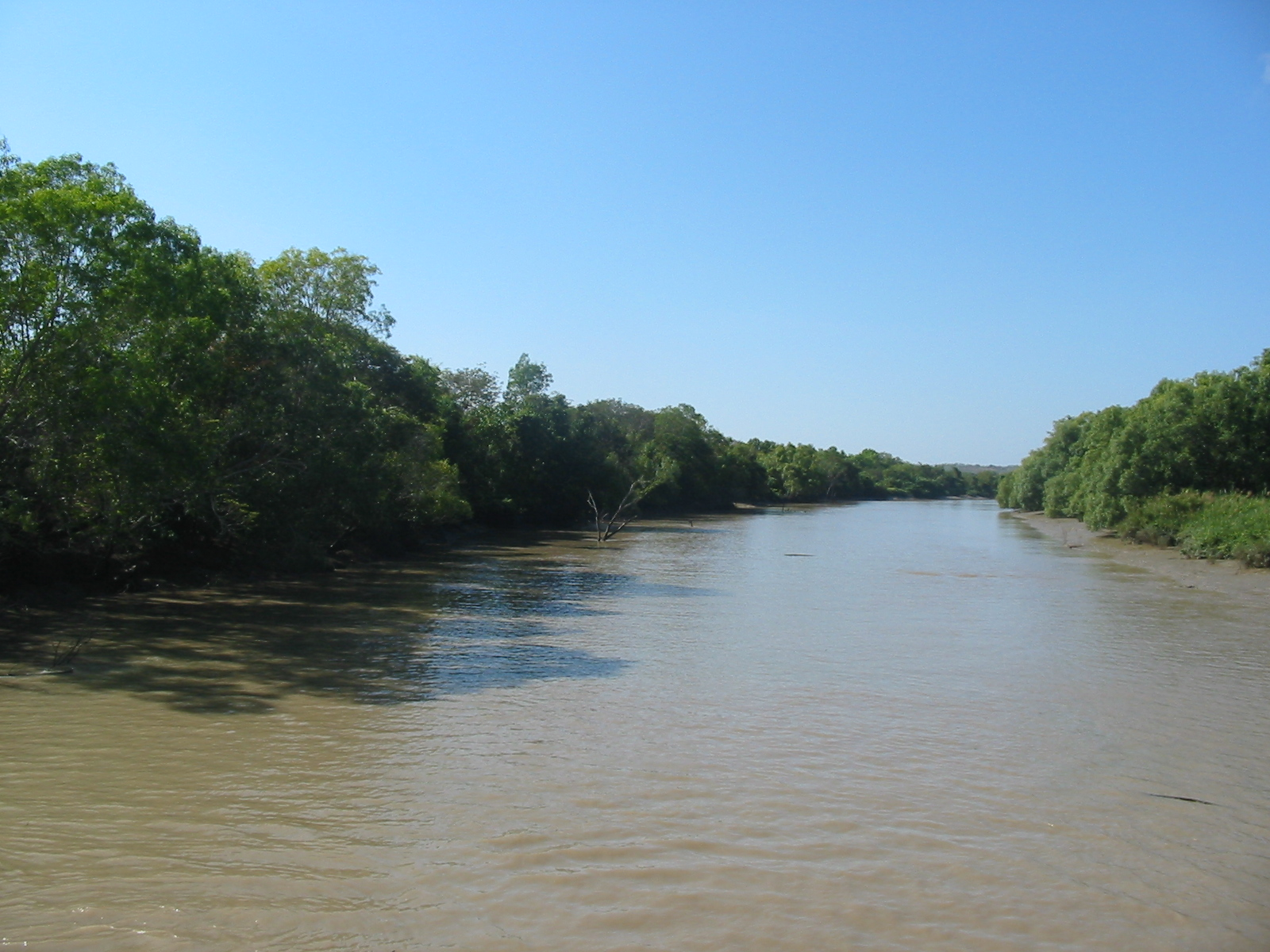 Adelaide River, crocodile far ahead (Northern Territory, Australia